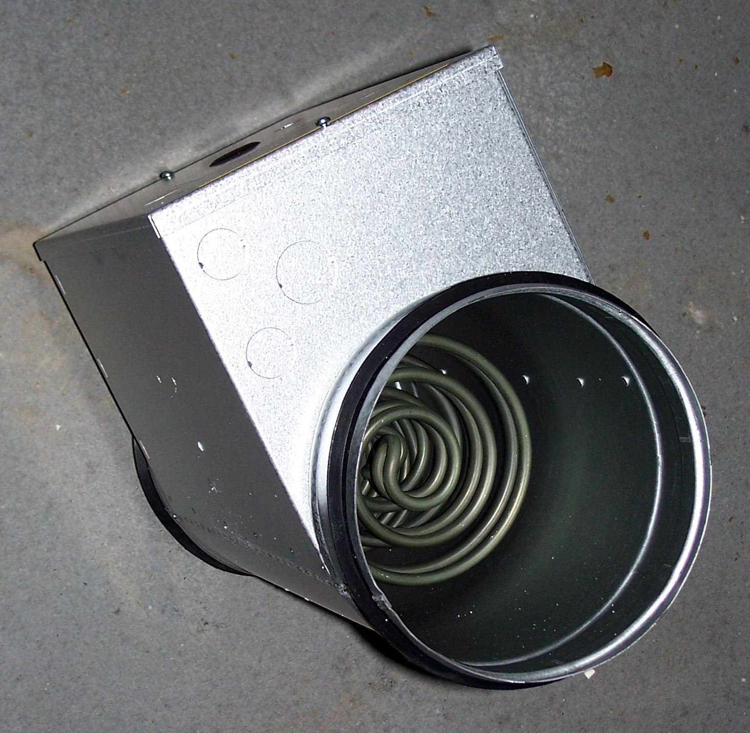 electrical heating duct, 2.1kW, diameter 160mm, with overheat protection switch